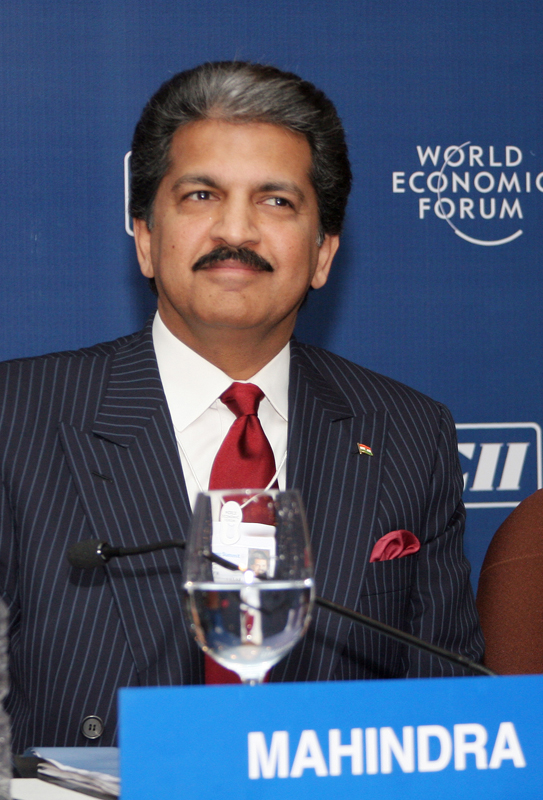 anand mahindra. Anand Mahindra (born 1 May 1955) is the chairman and managing director of Mahindra Group. His grandfather JC Mahindra co-founded the company in Mumbai, India. Founded as a steel trading company, the Group today has a presence in multiple sectors from agribusiness to aerospace.